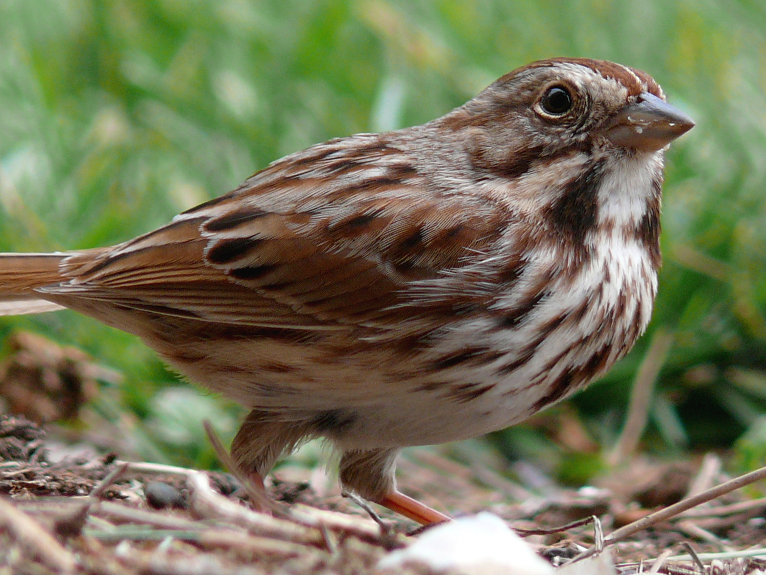 A Song Sparrow (Melospiza melodia) feeding on the ground. Photo taken with a Panasonic Lumix DMC-FZ50 in Caldwell County, North Carolina, USA.